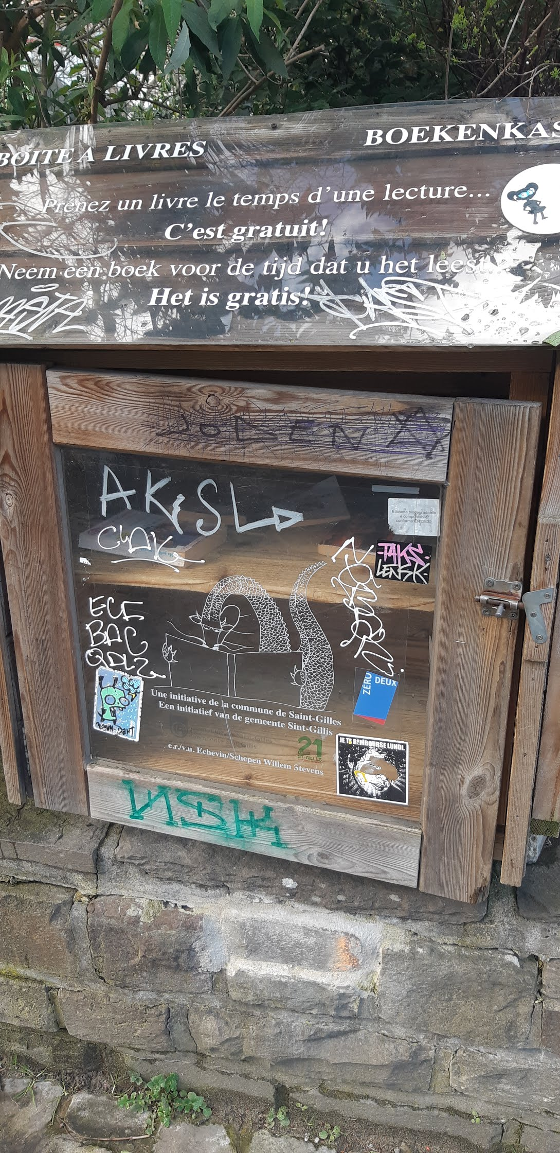 A tag "Joden" with a "star of david symbol", inspired by the Boycott of Jewish Businesses by the Nazis